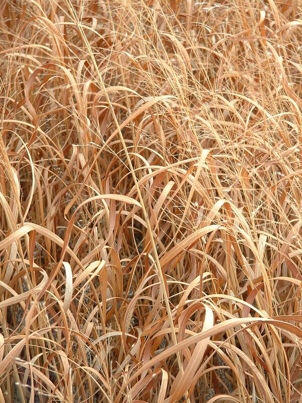 Prairie grasses, Nine-Mile Prairie, Nebraska